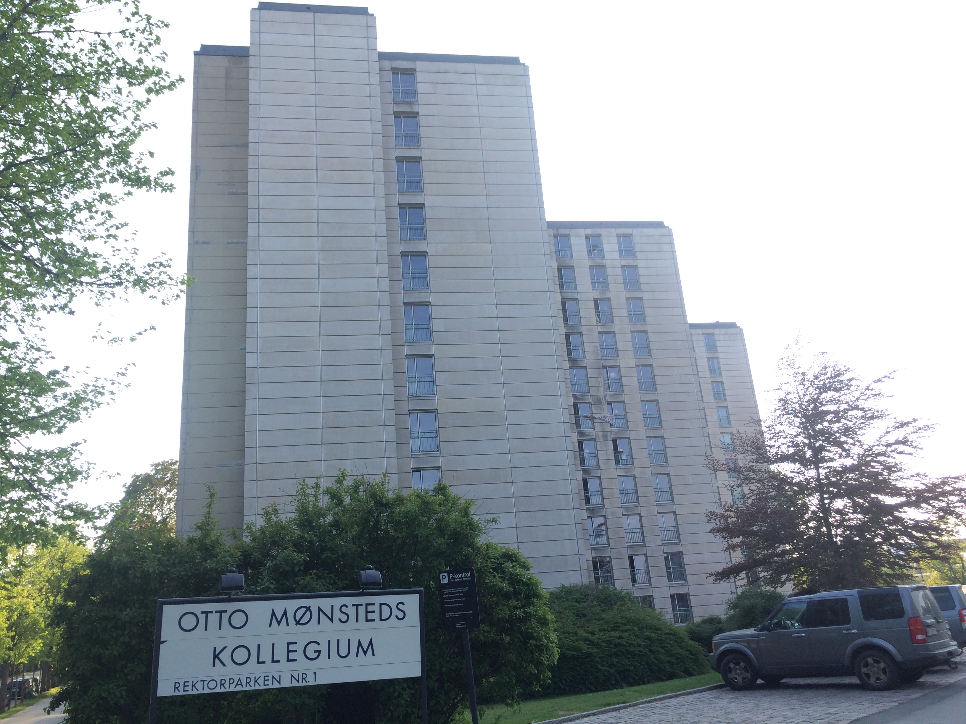 Otto Mønsteds Kollegium - student housing in Copenhagen Denmark